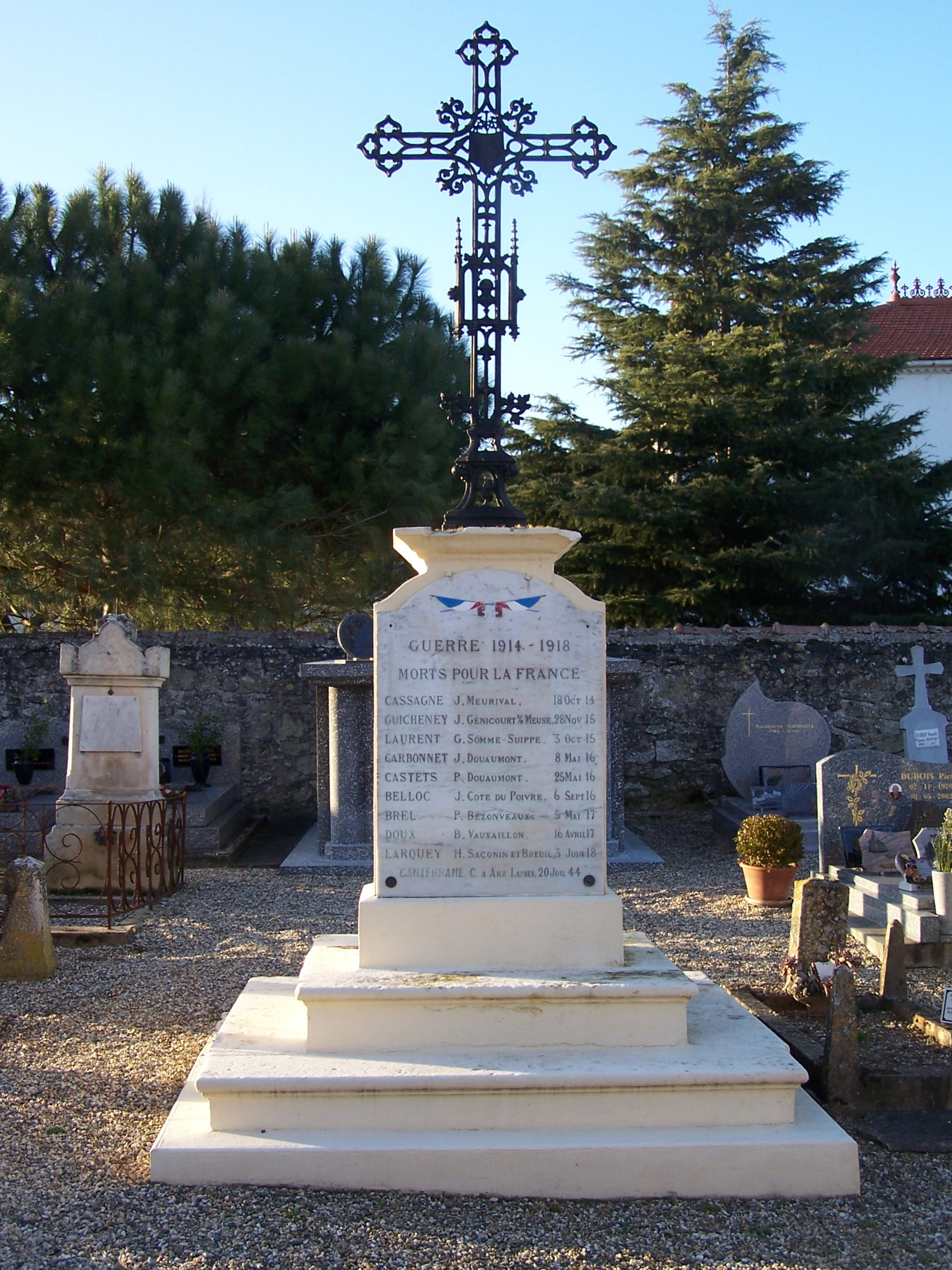 War memorial of Bourdelles (Gironde, France)